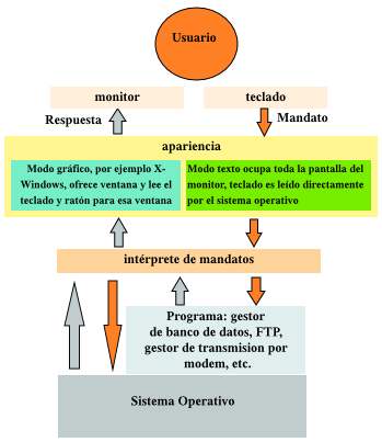 Diagram that explains the command line.